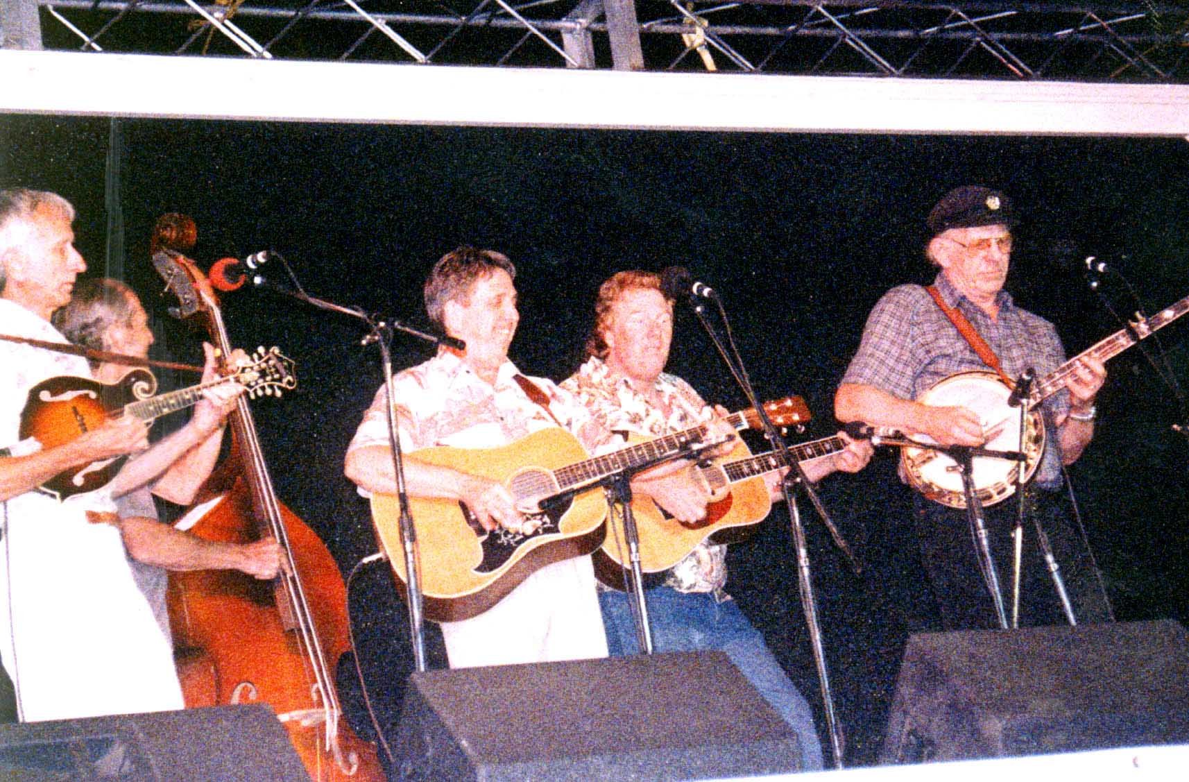 Tim Cooney playing with the original Dillards